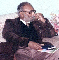 Abdus Salam (orginally with Qasim)